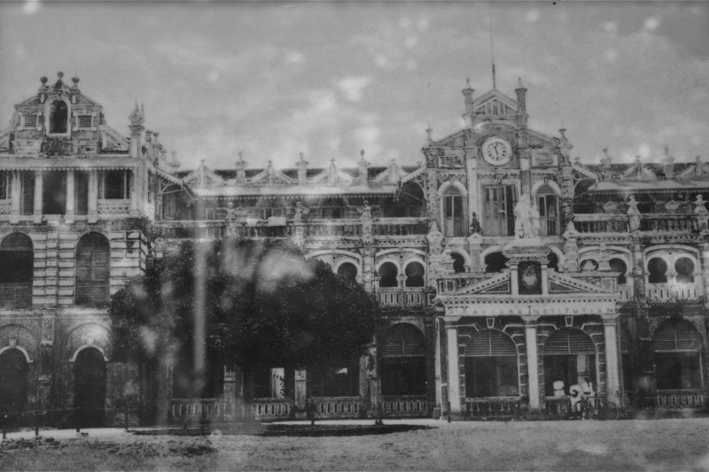 St Xavier's Institution in 1857.